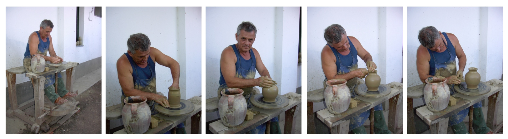 Hungarian ceramist working with Potter's wheel